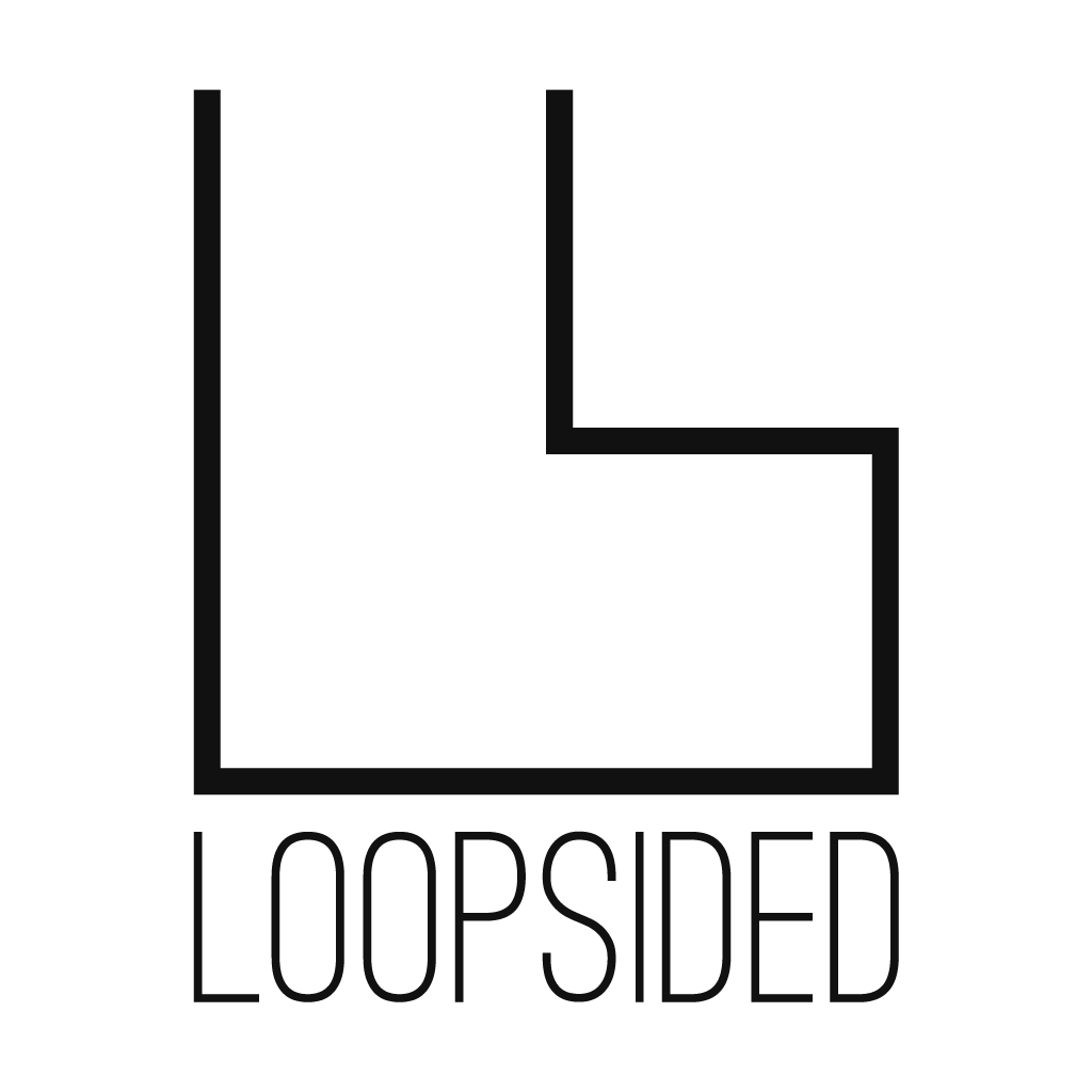 Logo of the Swiss music label Loopsided